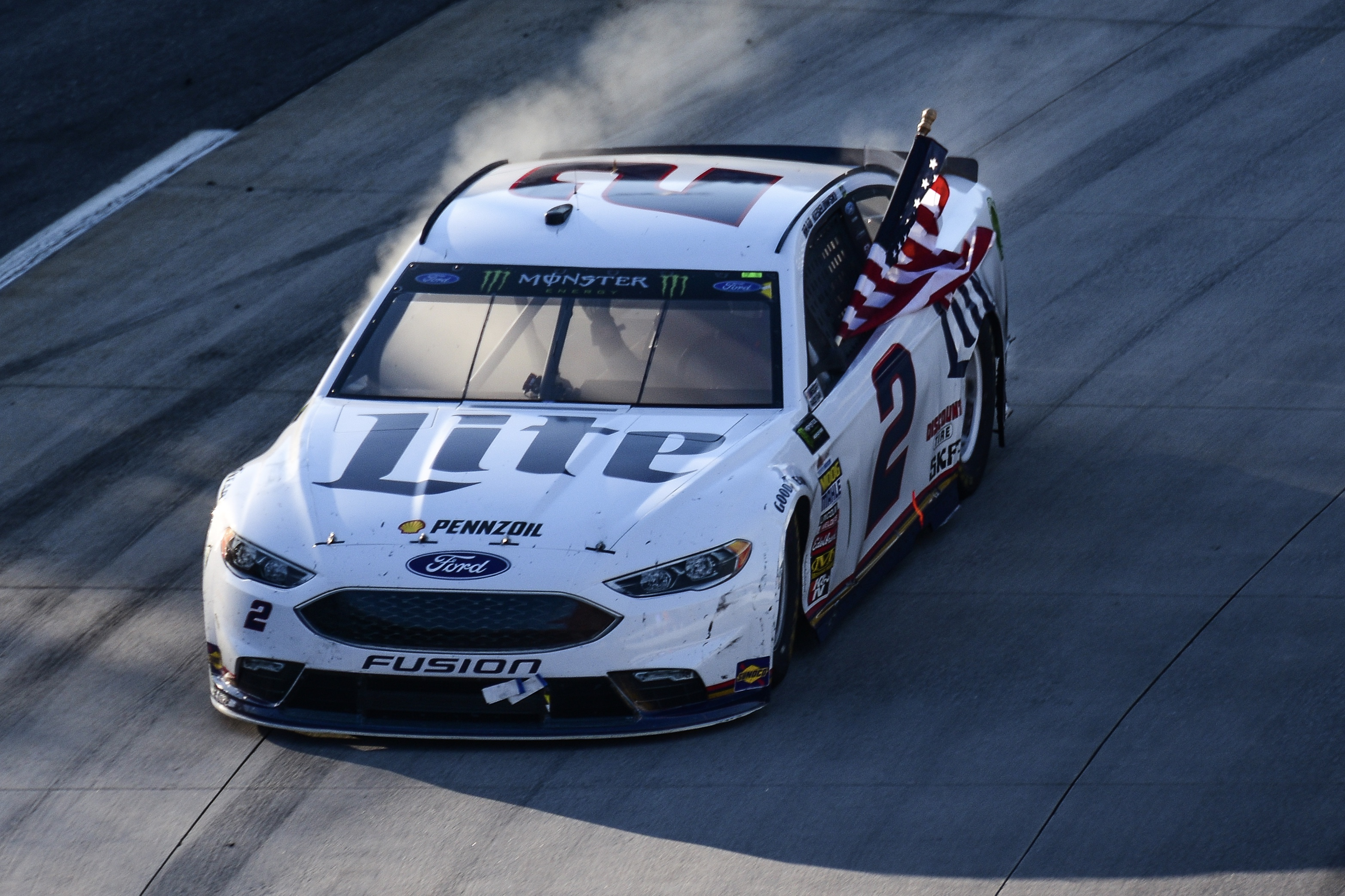 Brad Keselowski celebrating his win at the 2017 STP 500 at Martinsville Speedway